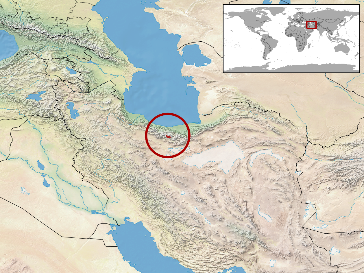 geographic distribution of Montivipera latifii (Native: Iran, Islamic Republic of)